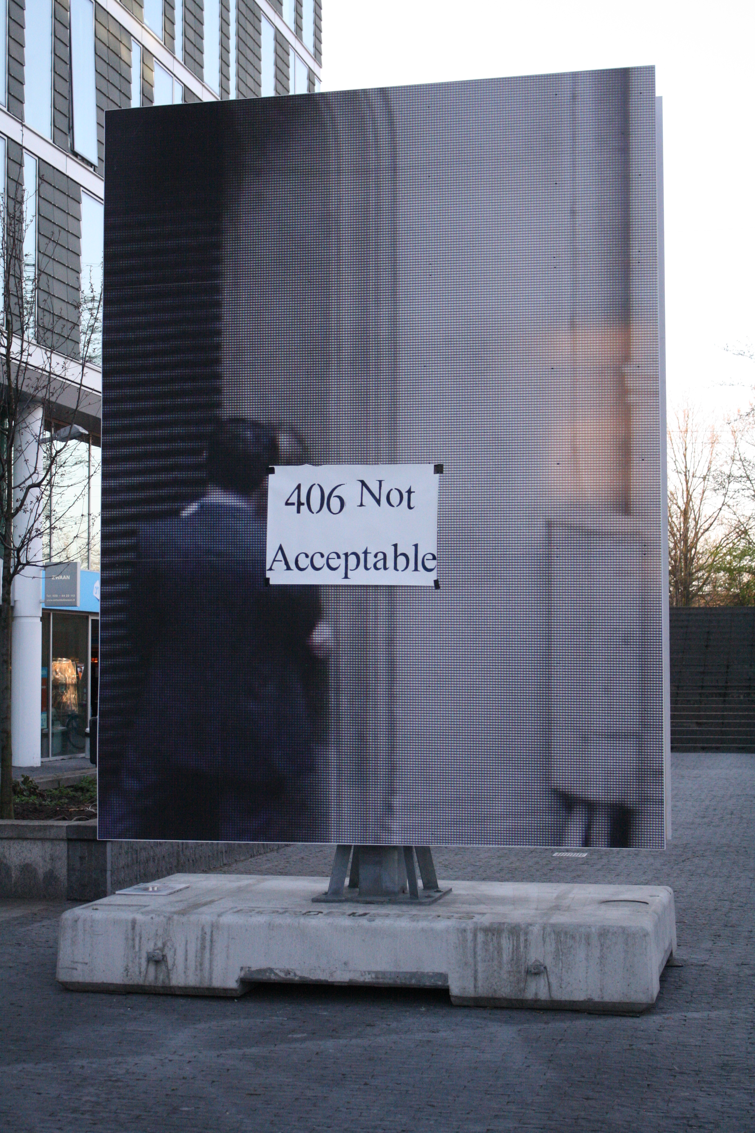 Michael Wolf 406 Not Acceptable